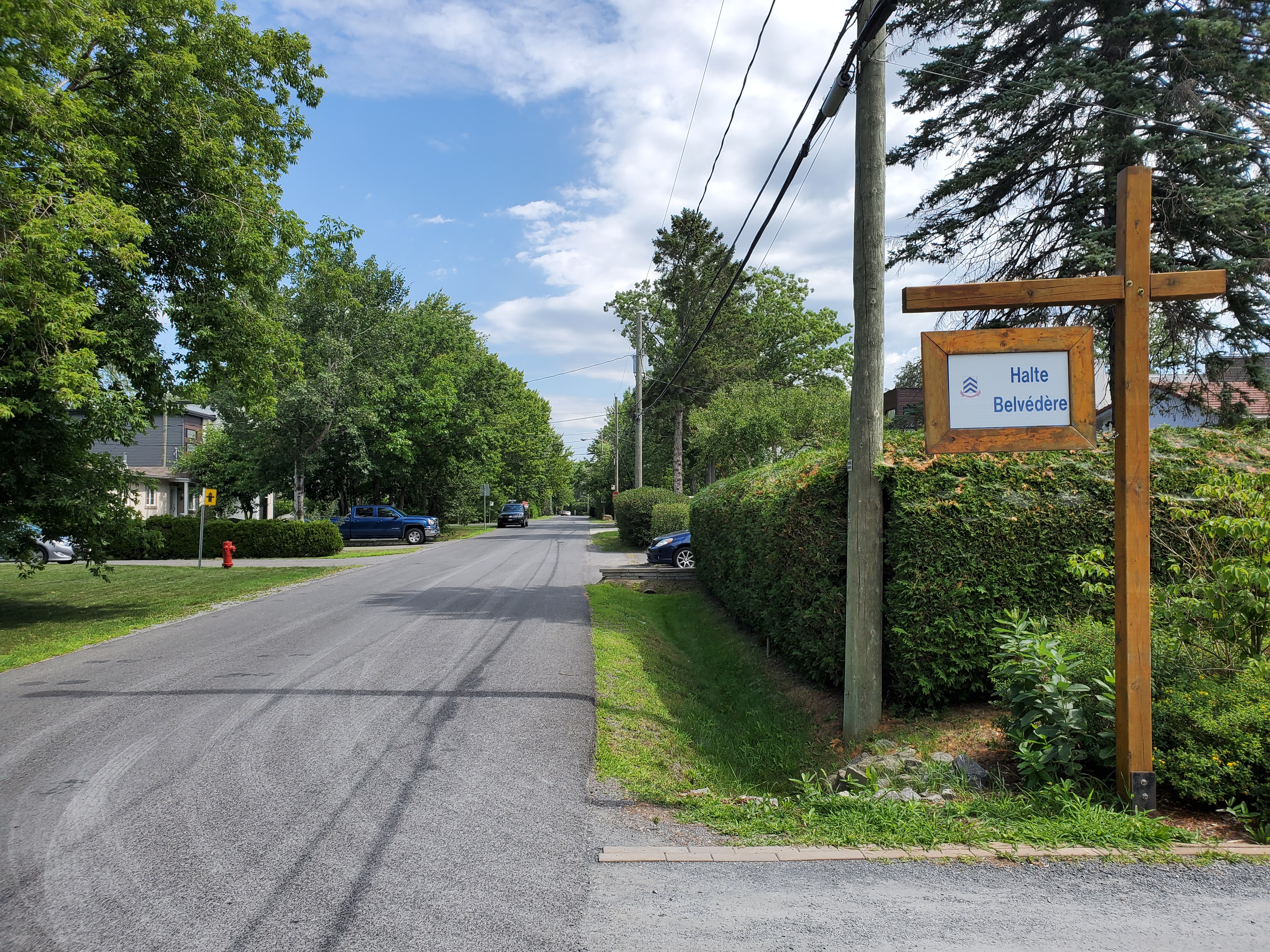 Sign indicating Halte Belvédère de l'Île Goyer in Carignan (QC) and view of rue des Roses